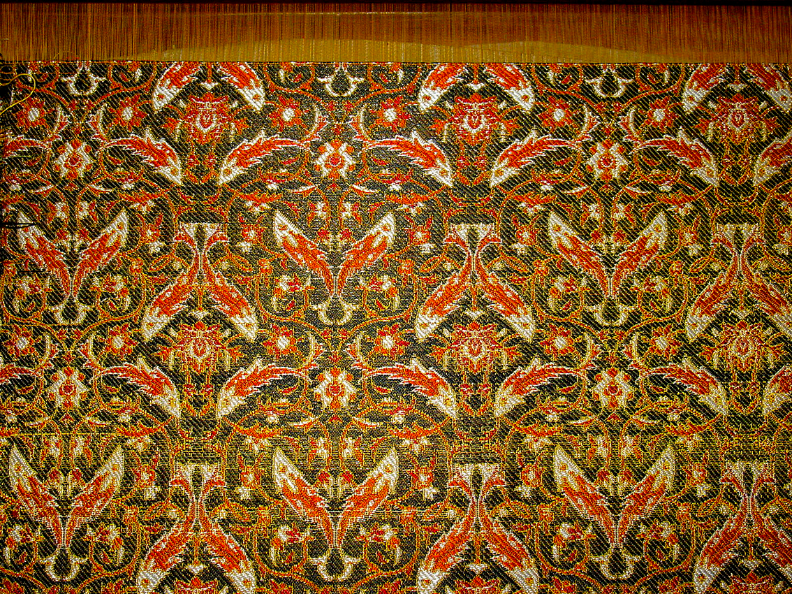 Persian Silk Brocade. Persian Textile (The Golden Yarns of Zari - Brocade). Silk Brocade with Golden Thread (Golabetoon). Texture Type: Upper Warp (Brocade Daraei). Draw Loom. Pattern and Design: The Fish (Mahi) with Shah Abbasi Flower, With Main Repeating Motif. Brocade weaver: Master Mohammad Salimian Rizi. 2004 A.D. Brocade Designer (Pattern Designer): Master Mohammad Tarighi. 1975 A.D. Islamic Republic of Iran. Cultural Heritage, Handcrafts and Tourism Organization. Research center for the Traditional Arts